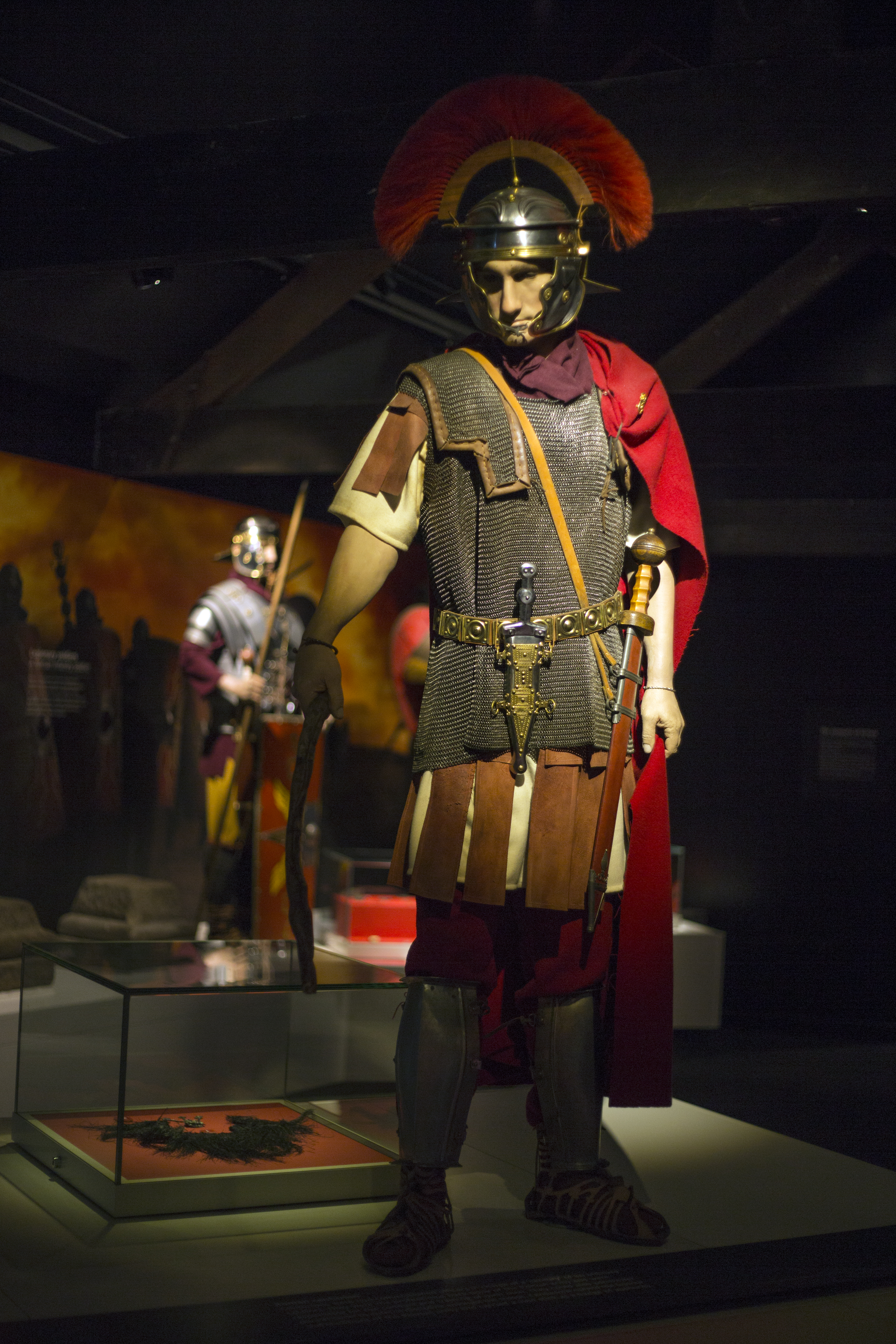 Vindolanda (Chesterholm) Roman forts, civil settlement and cemeteries, adjacent length of the Stanegate Roman road and two miles Wikidata has entry Q17668738 with data related to this item.